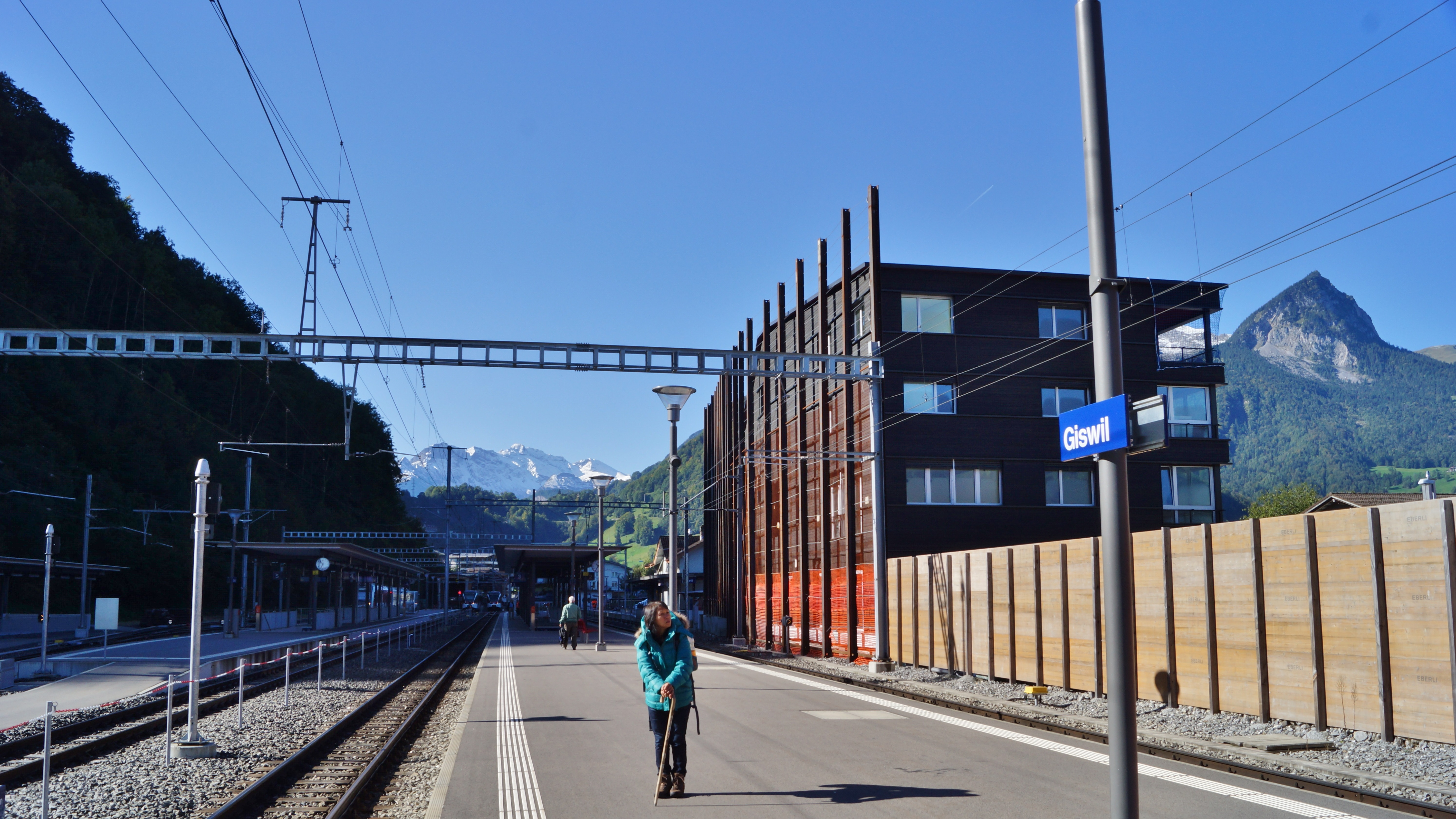 Giswil railway station, view to southwest.